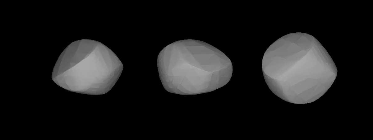 A three-dimensional model of 505 Cava that was computed using light curve inversion techniques.